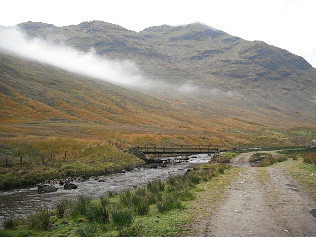 Bridge over the River Larig A useful bridge for those heading for the infamously steep Stob a' Choin in the background.